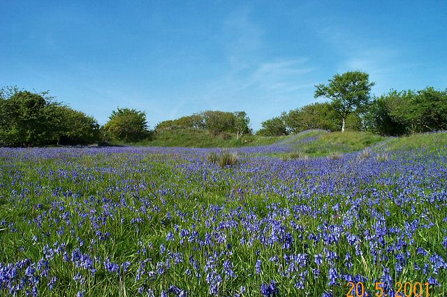 Blackdown Rings - South Devon